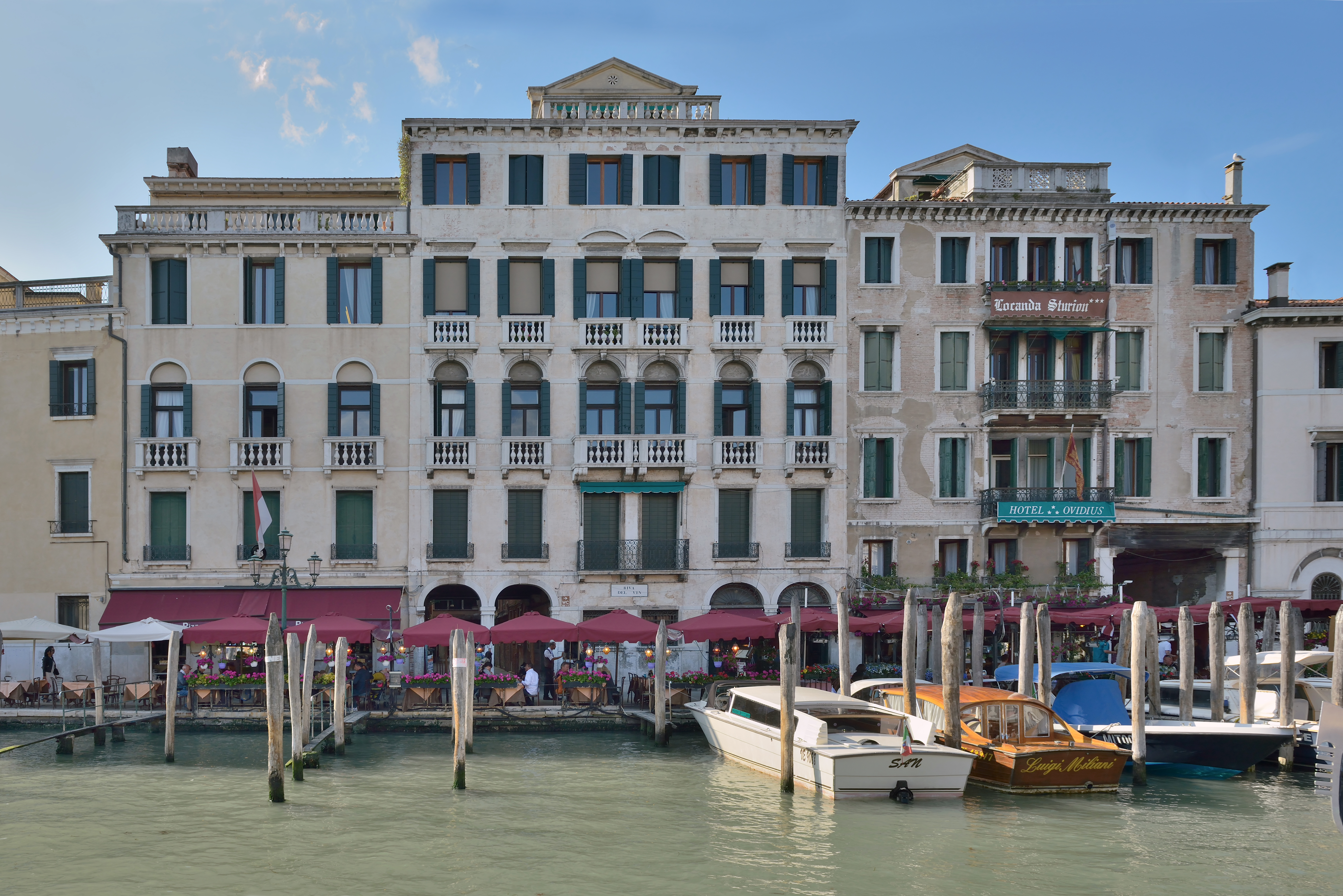 Palazzo Casa Pasquato in Venice. Facade on Grand Canal.